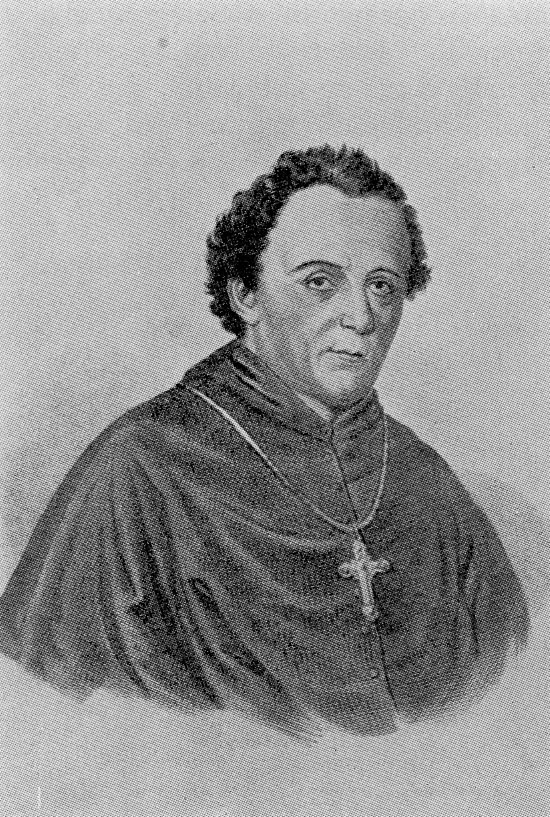 Portrait of Bartolomeo Romilli, Arcbishop of Milan